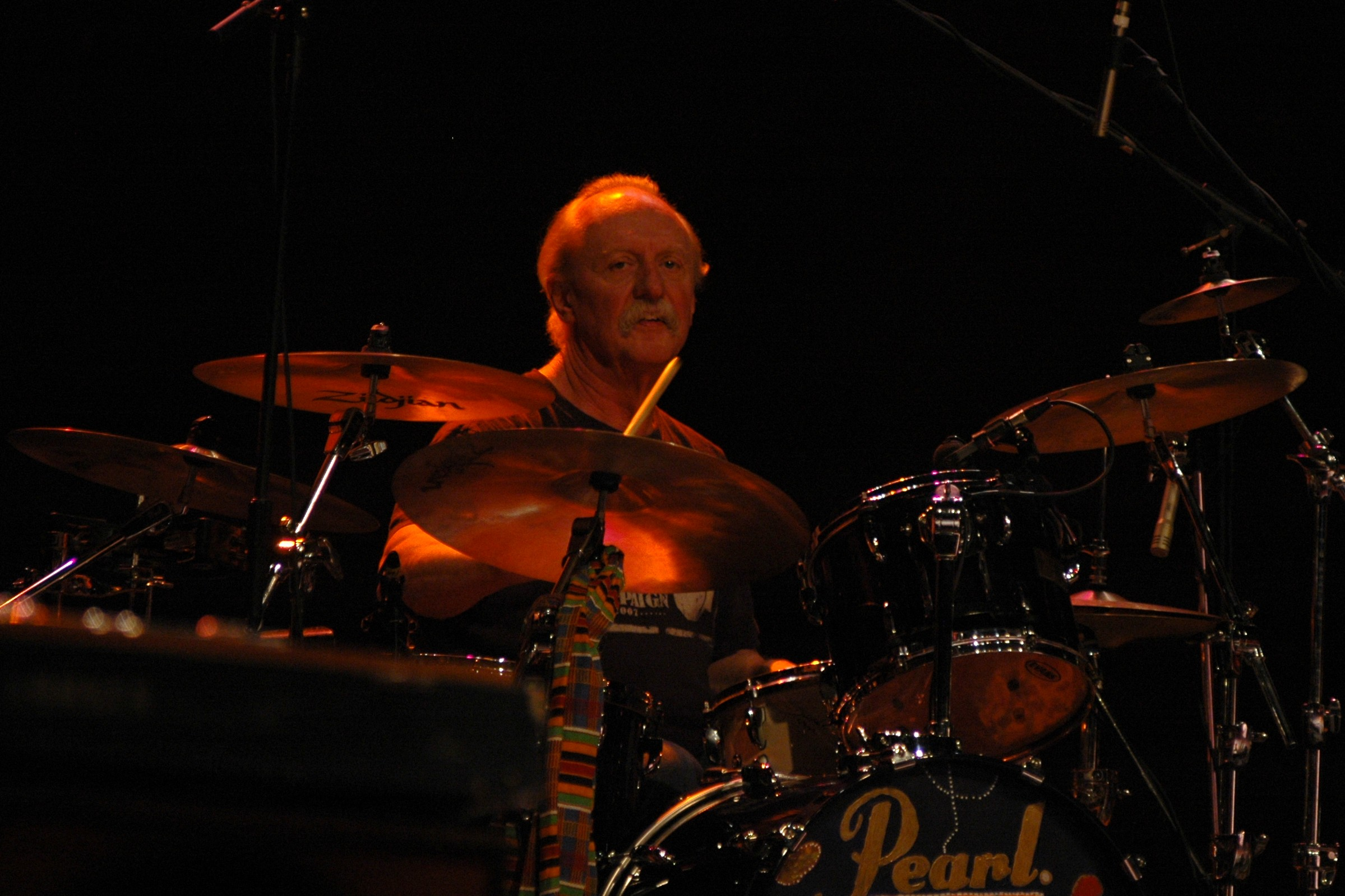 Butch Trucks of the Allman Brothers Band guesting at the Soul Stew Revival, Mizner Park, Florida. 12/28/07.